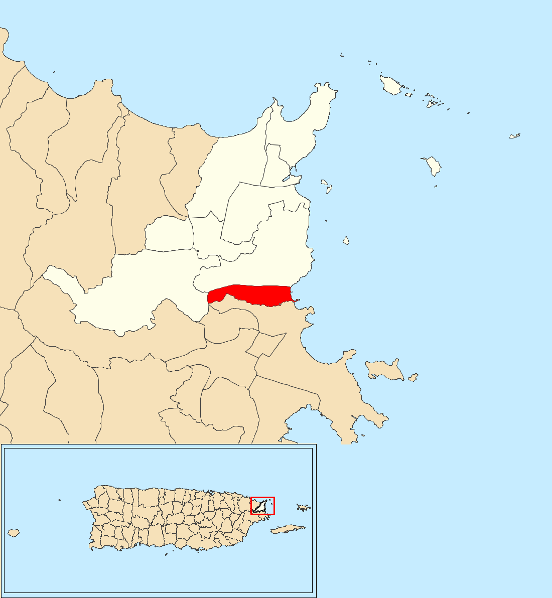 Demajagua, Fajardo, Puerto Rico locator map